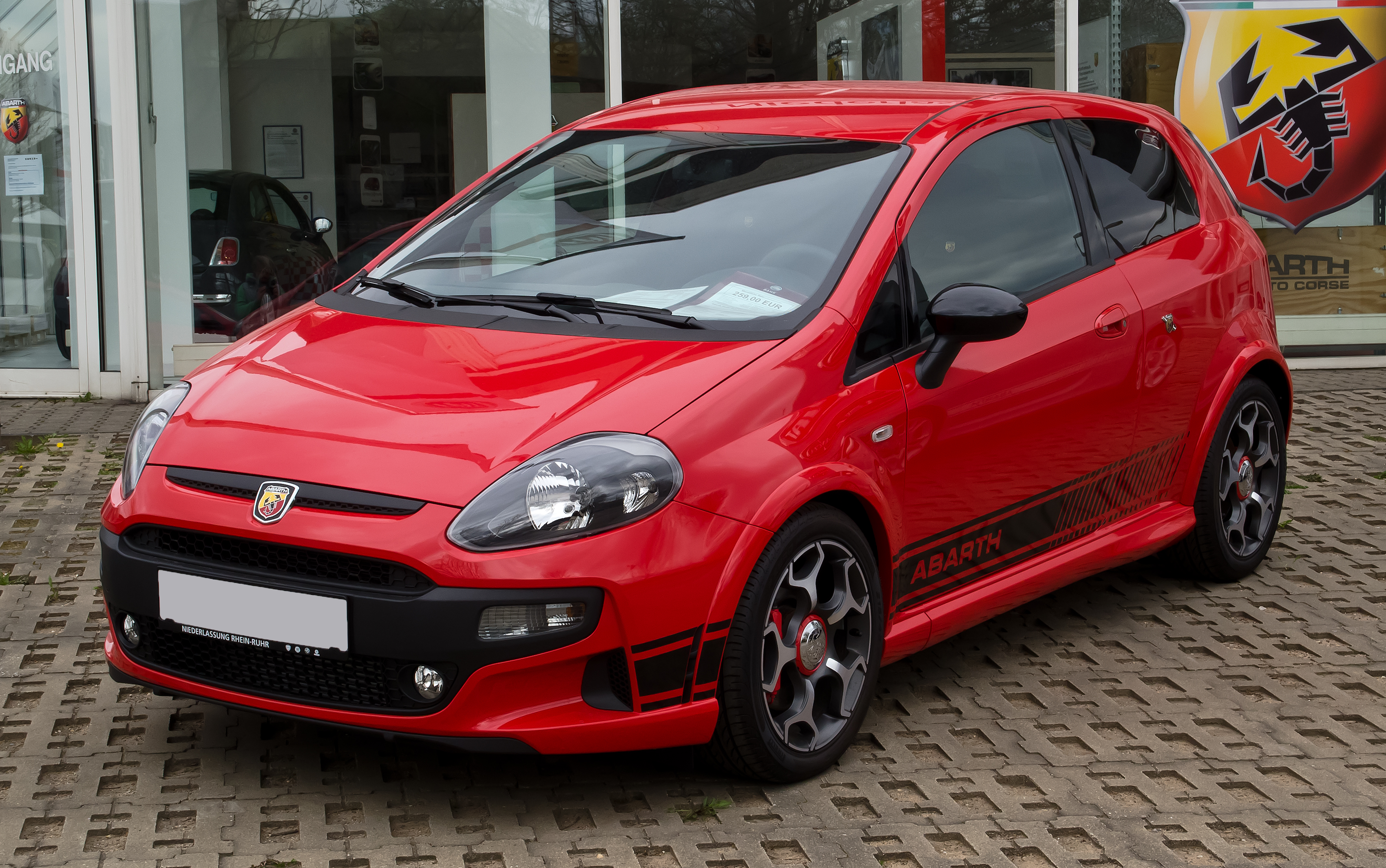 Fiat Punto Evo Abarth (1. Facelift)